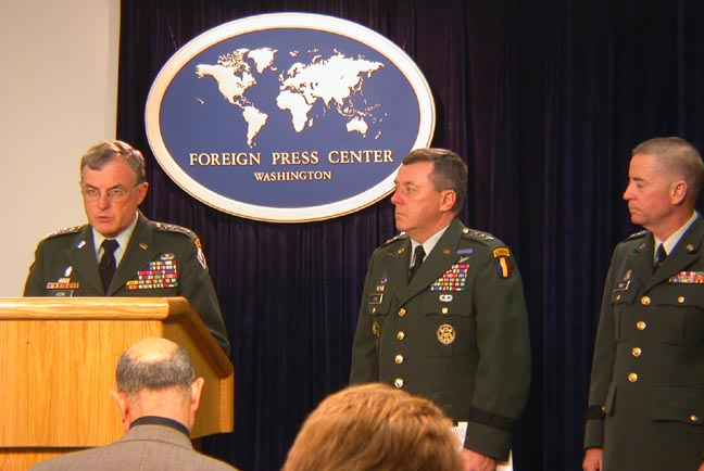 Generals Paul Kern, George Fay and Anthony Jones From... Caption on the original page reads: General Paul Kern, the Appointing Authority for the Investigation; Lt. Gen. Anthony Jones, Leade Investigator; and Maj. Gen. George Fay, Investigating Officer, at Washington Foreign Press Center Briefing on the "Investigation Results: Military Intelligence Activities at Abu Ghraib."